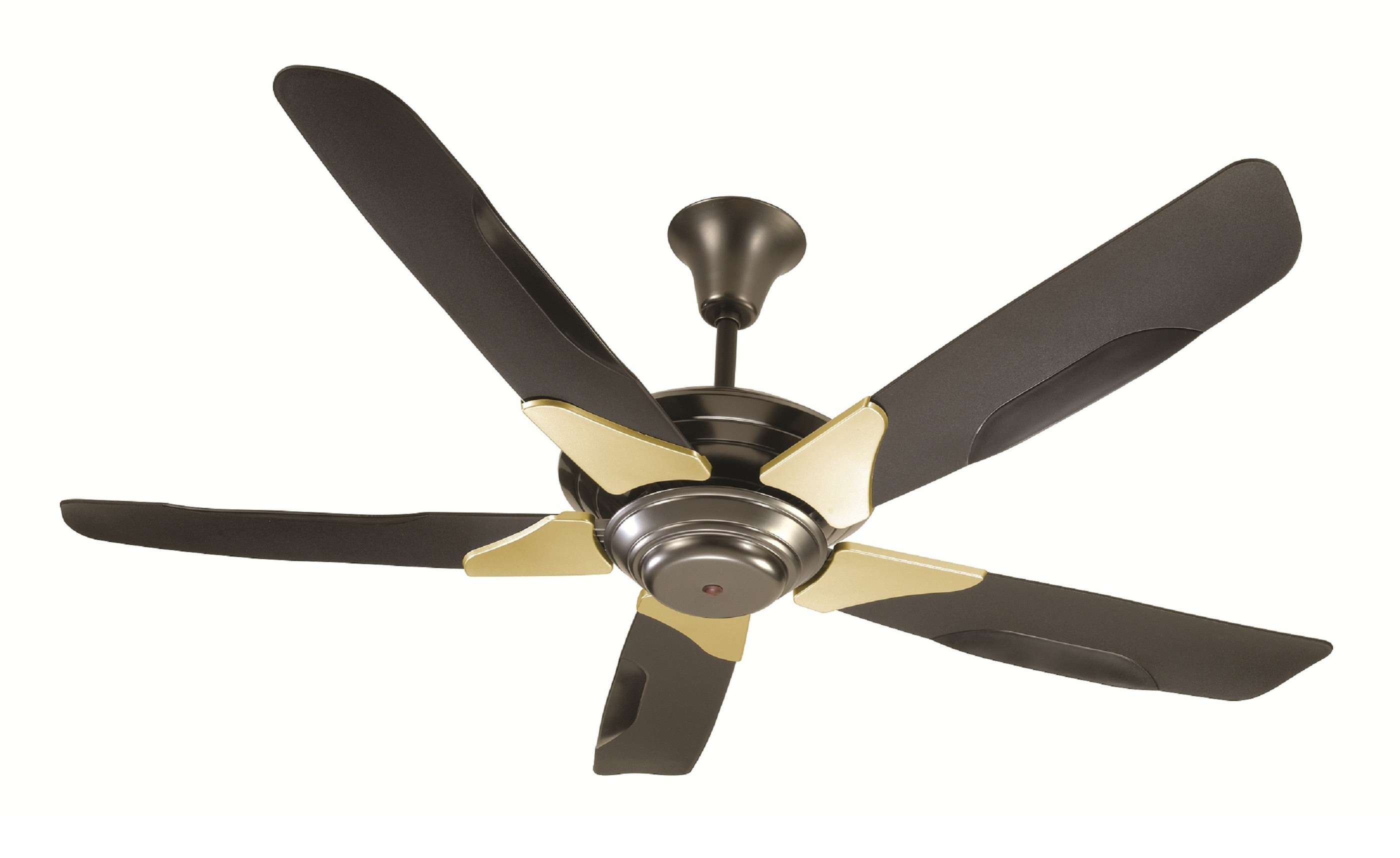 The Black Beauty